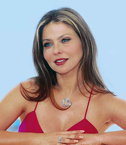 Muti Ornella at Cannes in 2000. My own picture. Created by Rita Molnár 2000.